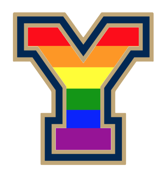 A gay parody of Brigham Young University's logo;Other information: This parody of the BYU logo juxtaposes a symbol of BYU and its conservative Mormon culture and stances against LGBT rights like same-sex marriage by replacing the homogenous plain white interior fill with the bright and diverse colors of the universally recognized gay pride flag colors. U.S. Code Title 17 Chapter 1 Section 107 gives parodies protection for fair use as a derivative work. According to the US Supreme Court a parody is "the use of some elements of a prior author's composition to create a new one that, at least in part, comments on that author's works", and that commentary function provides some justification for use of the older work (see Campbell v. Acuff-Rose Music, Inc.). See also the derivative work page.